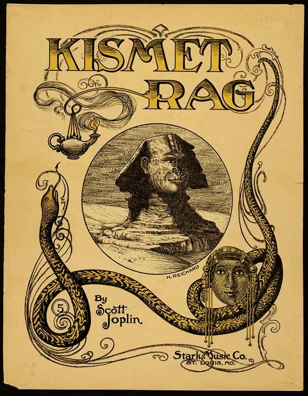 Kismet Rag, by Scott Joplin & Scott Hayden (1913)